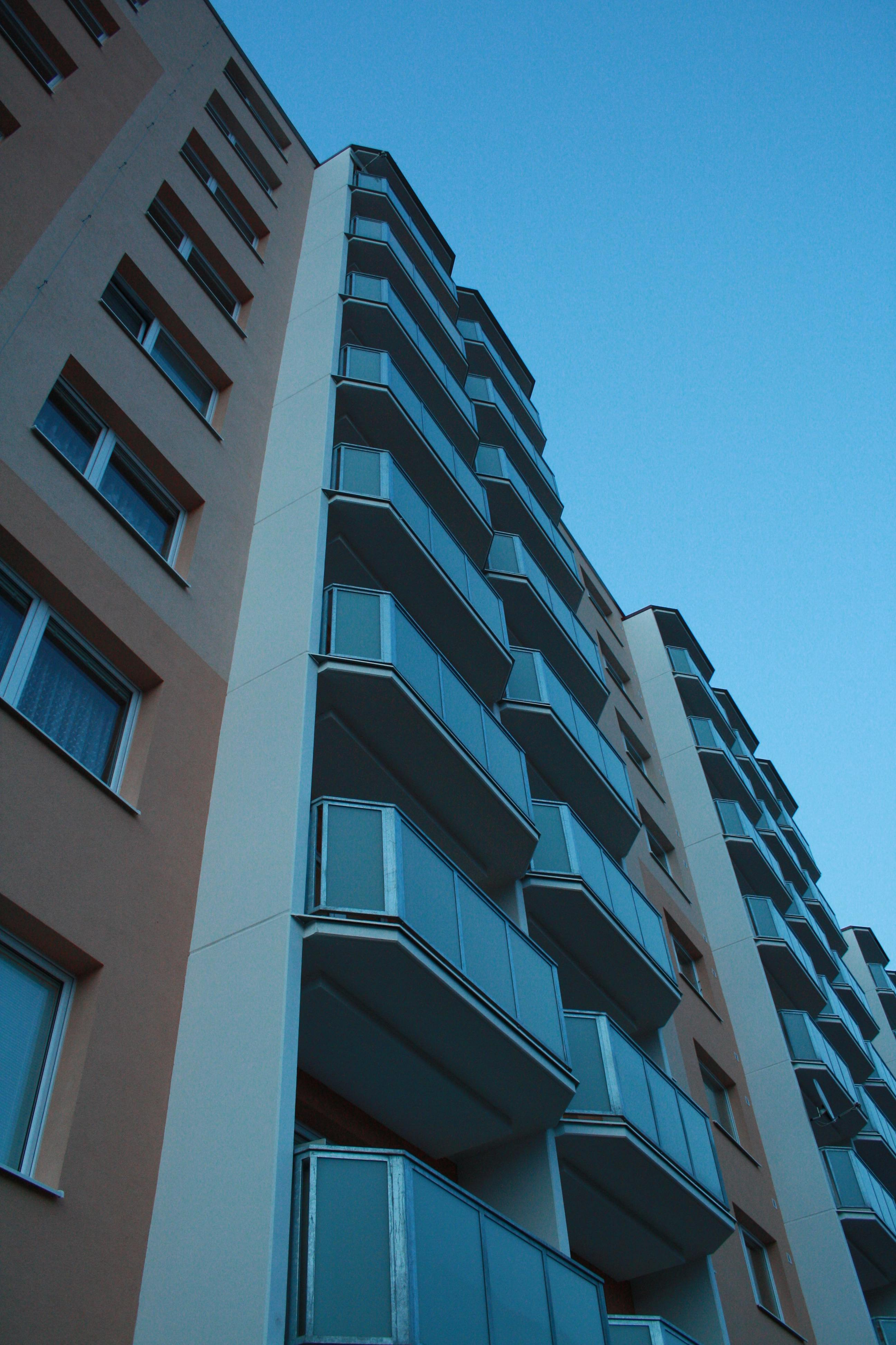 Balconies of reconstrued panel house in Třebíč, Czech Republic.